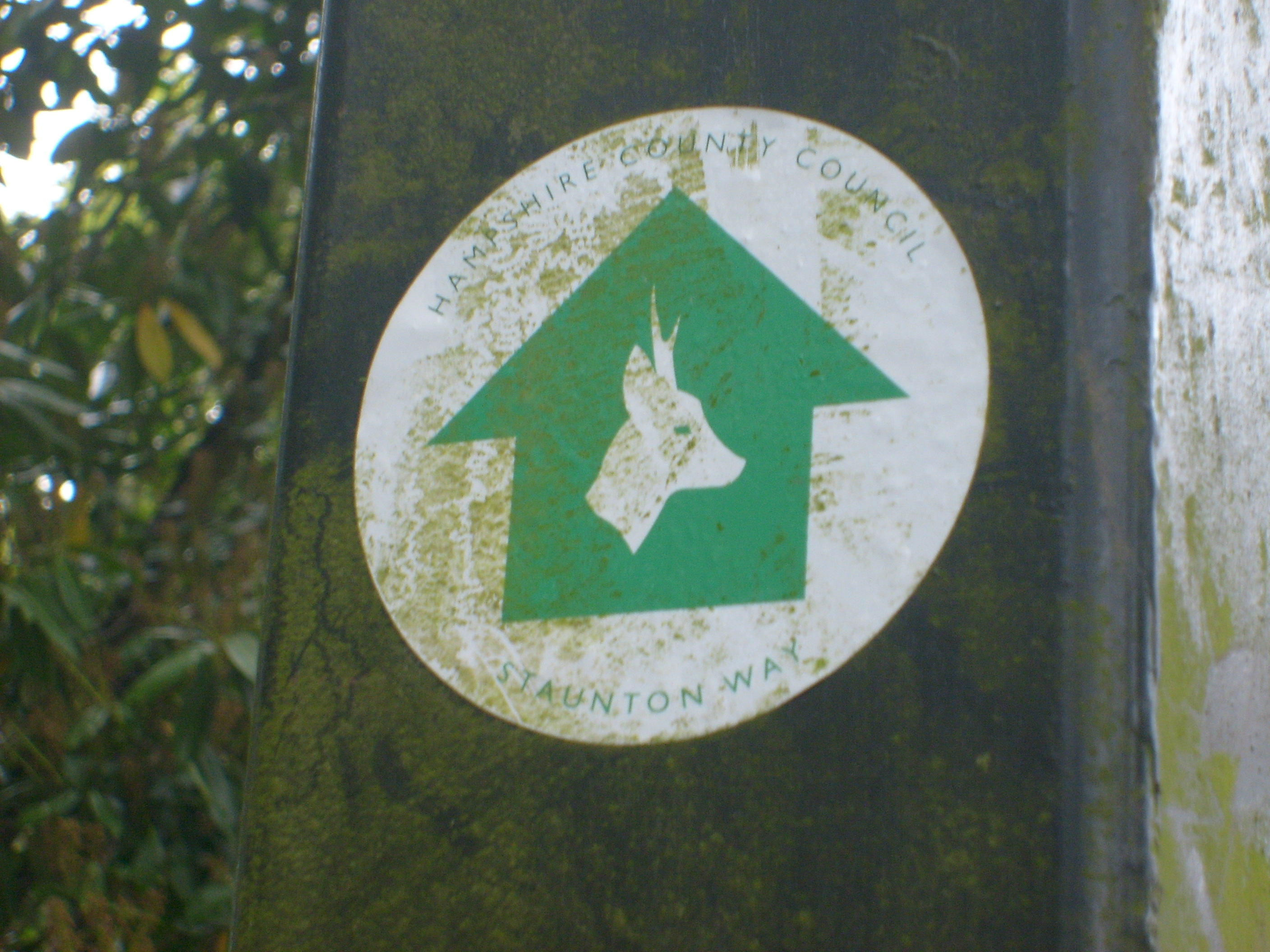 A Staunton Way waymarker near Staunton Country park.